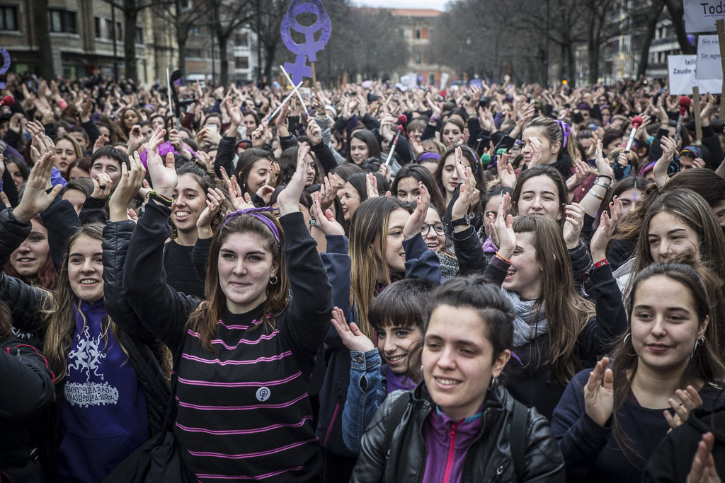 Women's strike in Pamplona (Spain), on 8 March 2018.